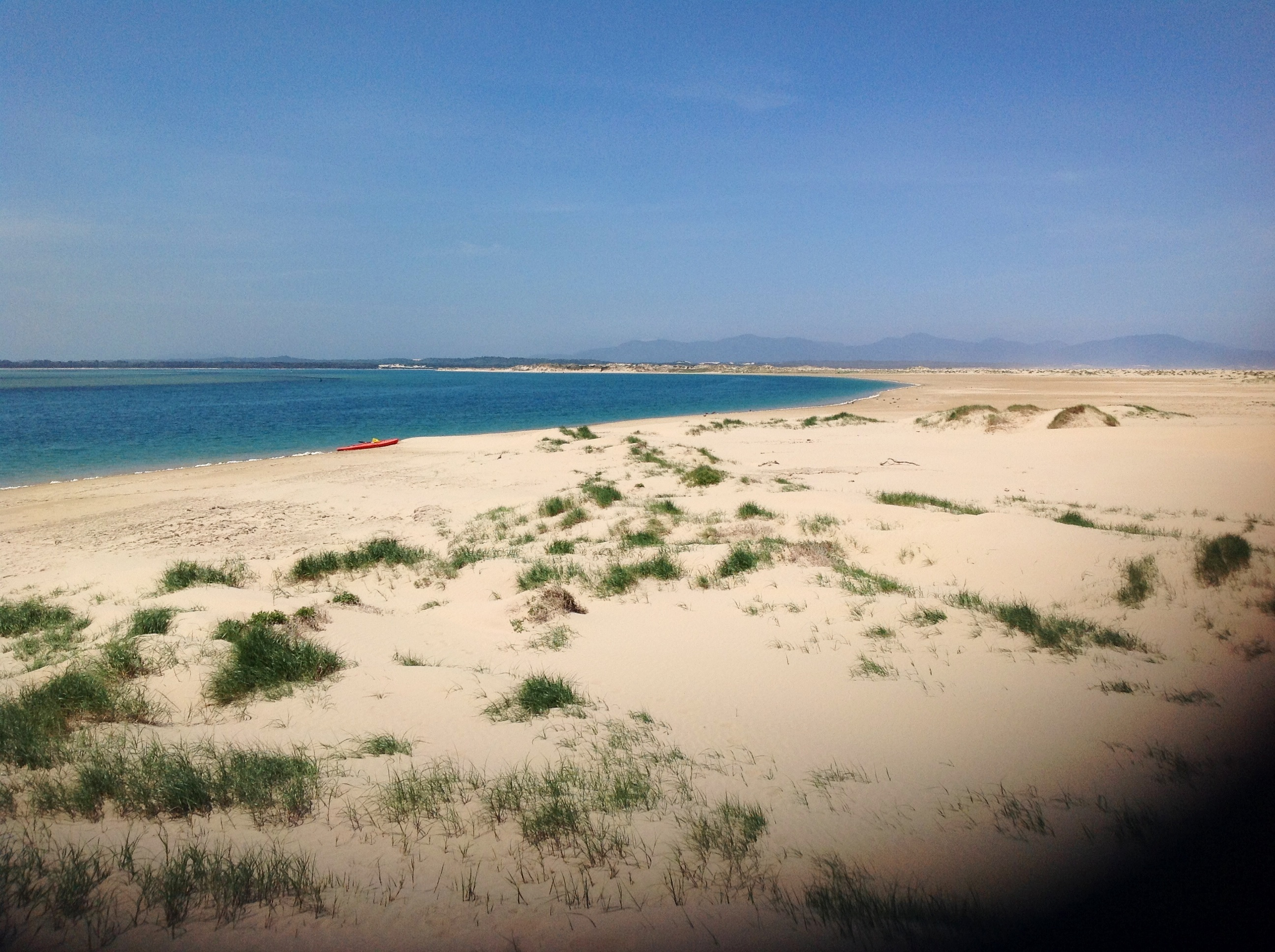 Sand dunes at Shallow Inlet, Sandy Point